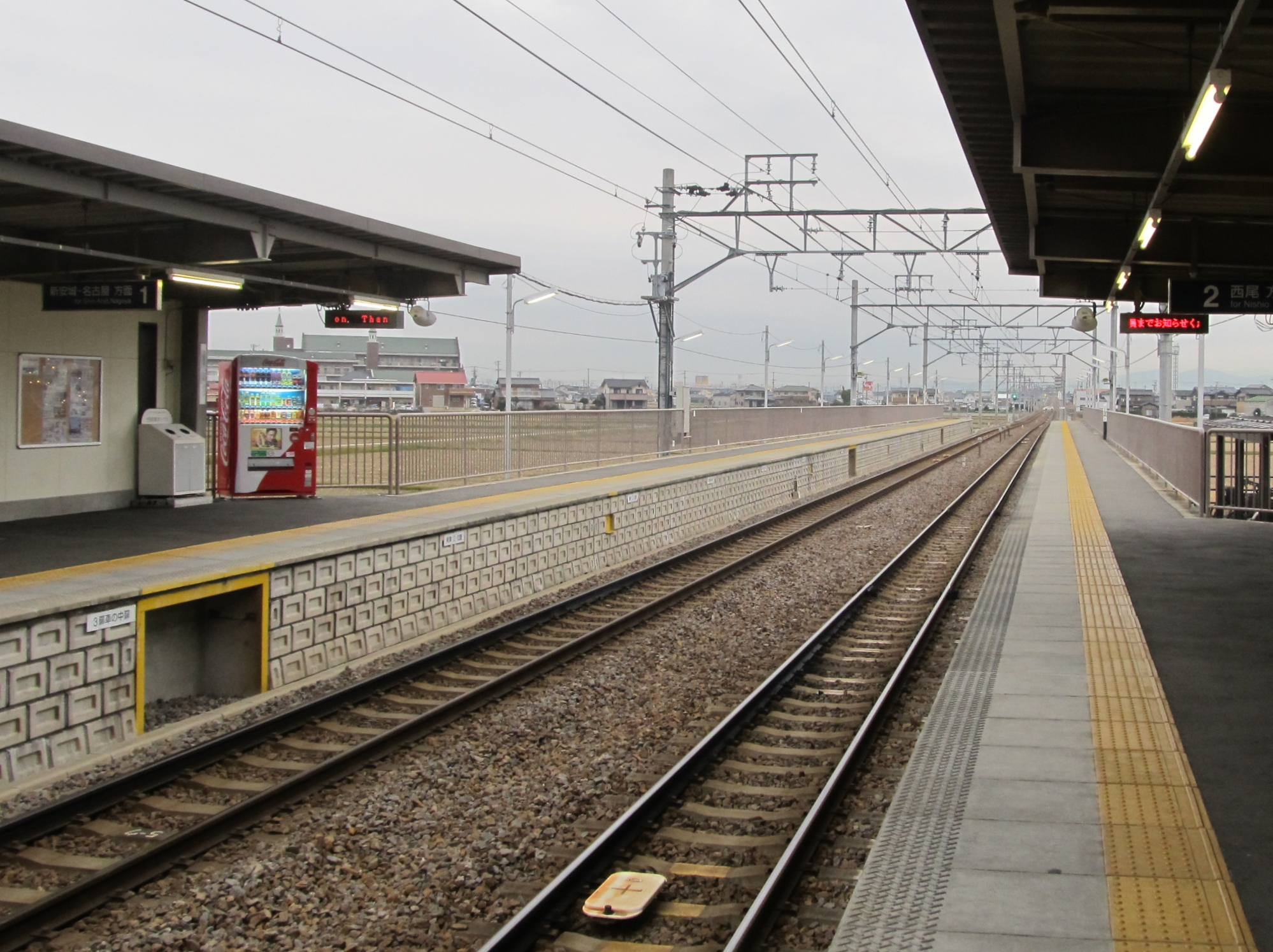 Nagoya Railroad Nishio Line Minami Sakurai Station Platform